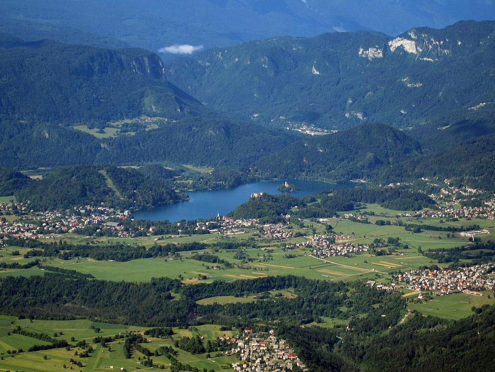 Blejsko jezero (Bled lake)